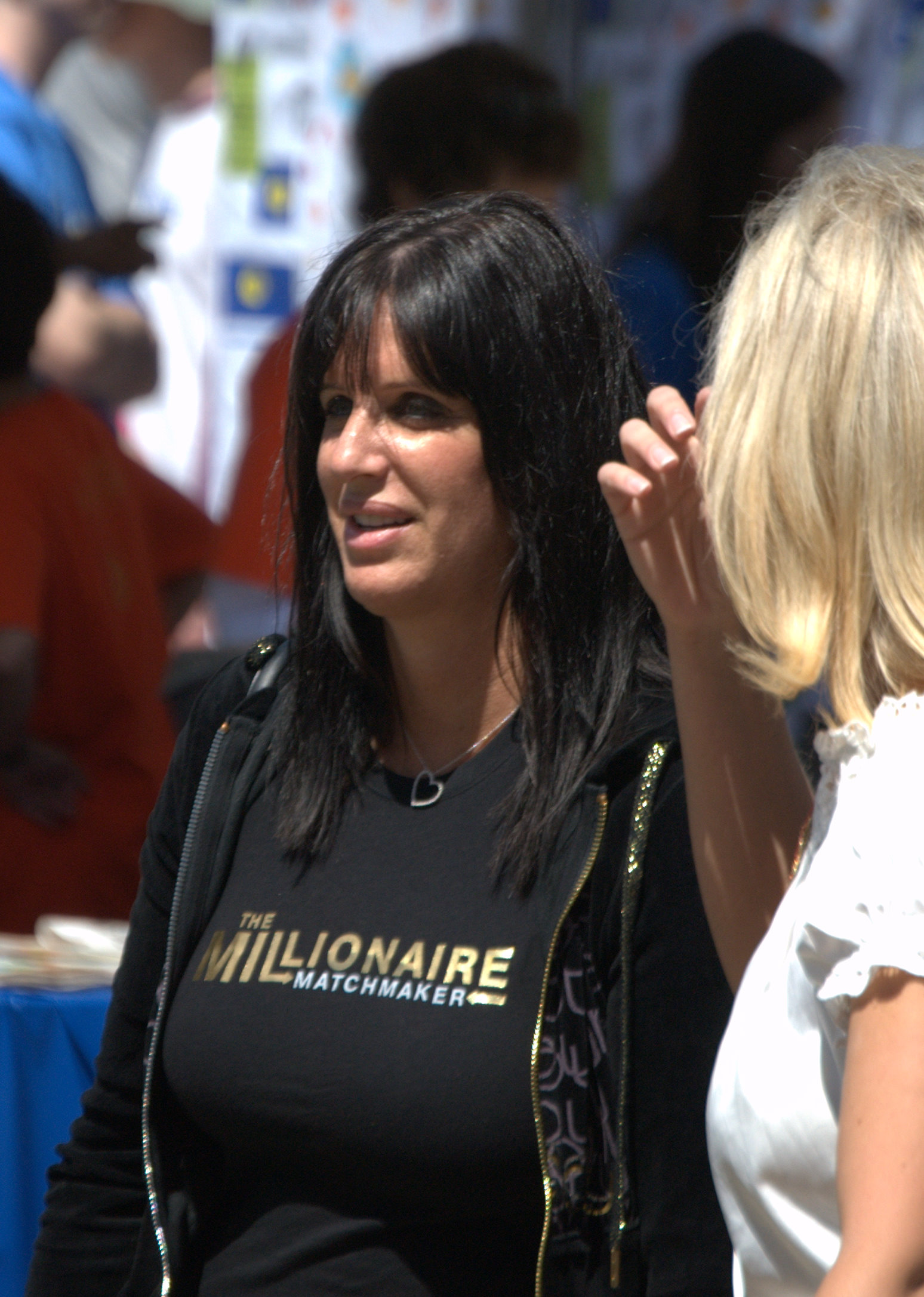 Los Angeles Times Festival of Books 2009